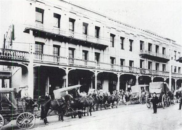 A view of National Exchange Hotel in 1894.